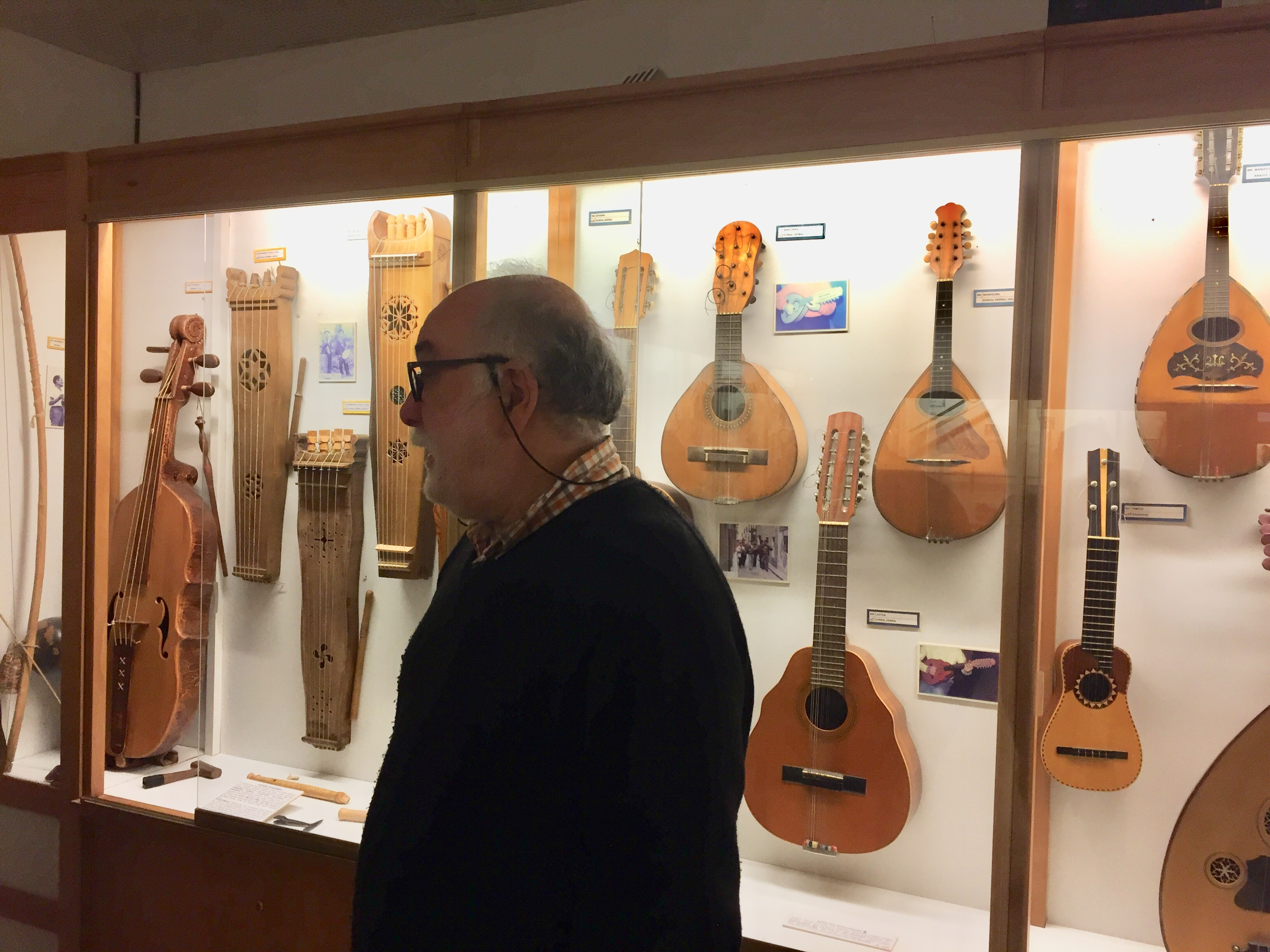 The photo has been taken in December 2018